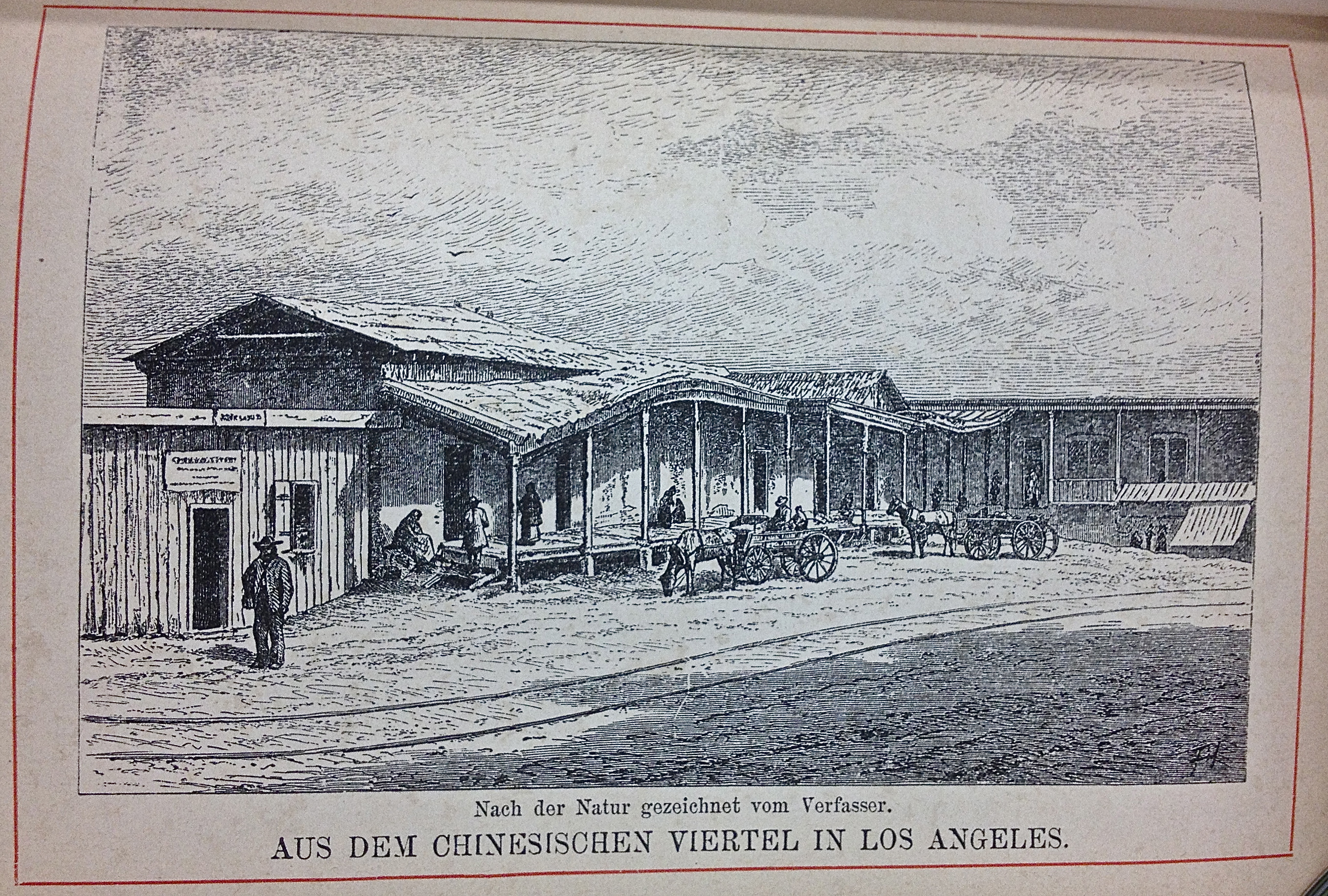 Chinese Quarter in Los Angeles California, from p. 54